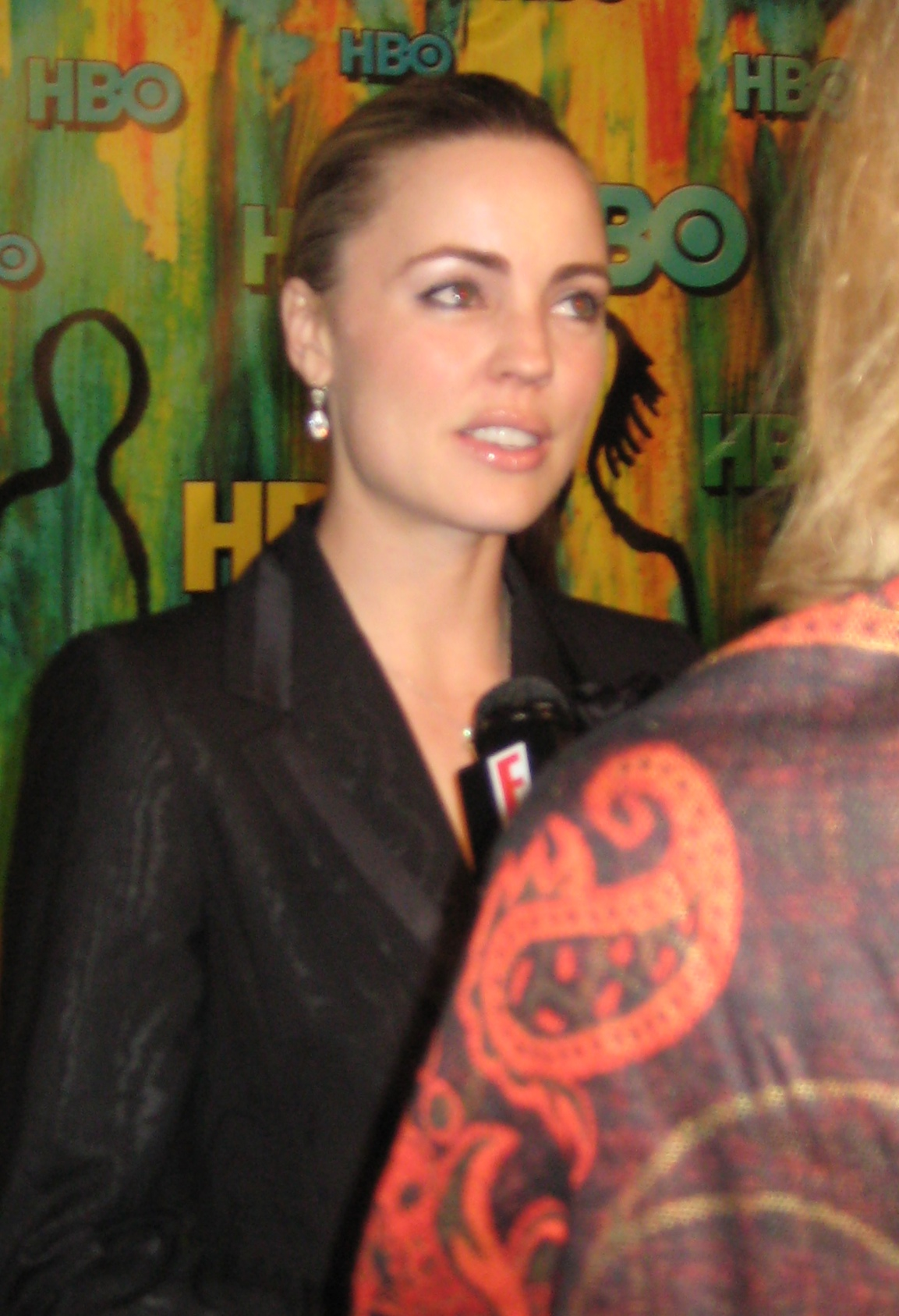 HBO Post-Emmys Party, Pacific Design Center, Sept. 21, 2008